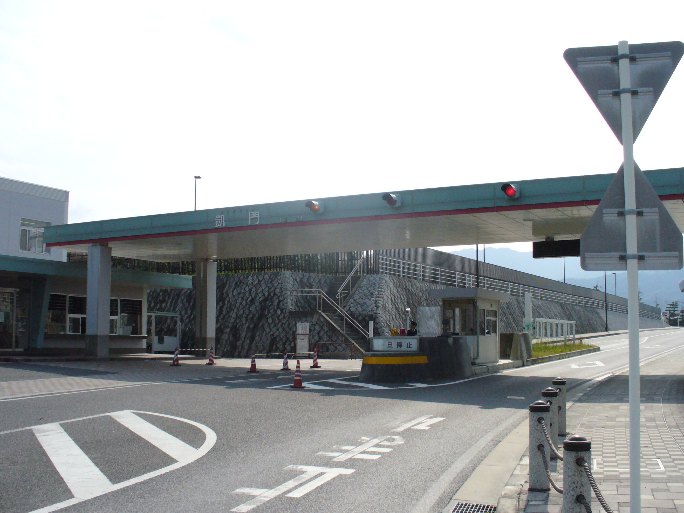 Photograph of Rittou Training Center Kachidoki-mon, taken in Ritto-shi, Shiga, Japan.